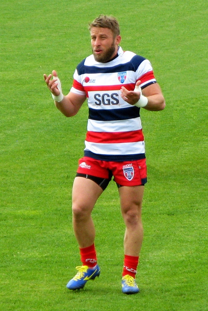 Romanian Florin Surugiu, rugby union player from CSA Steaua București rugby club seen in a match against Timișoara Saracens in Romanian Rugby SuperLiga in April 2017